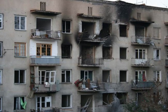 18 August 2008. Tskhinval after Georgian artillery bombardment